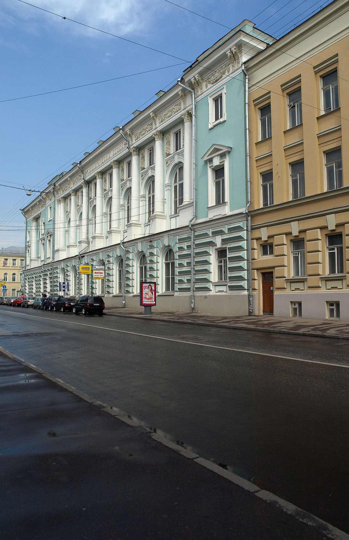 Bolshaya Nikitskaya Street, Moscow. University buildings of 1898-1901